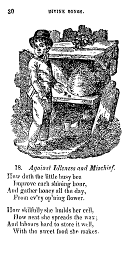 "How doth the little busy bee" from Isaac Watts' Divine Songs (originally published in 1715). This is one of many later editions.